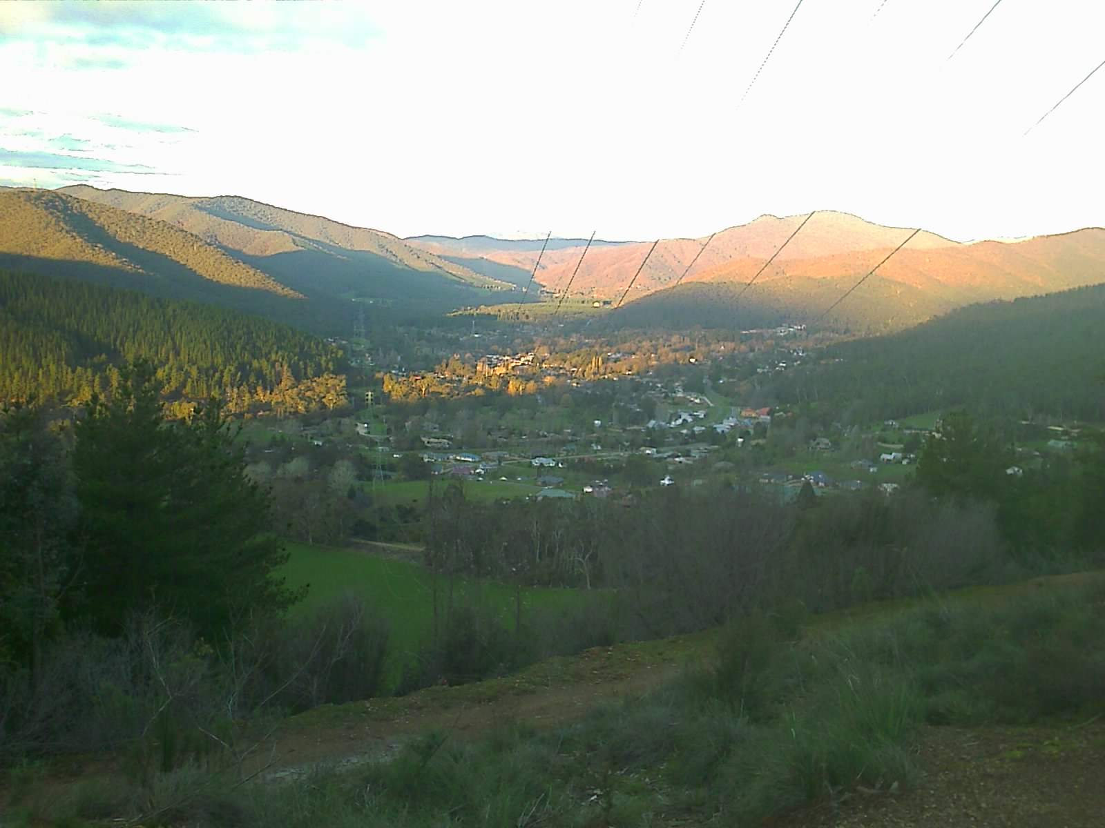 The township of Bright from a lookout on one of the surrounding hills